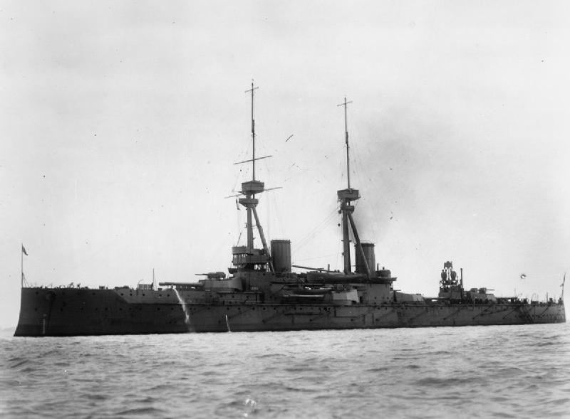 British Battleships of the First World War HMS SUPERB shortly after completion.